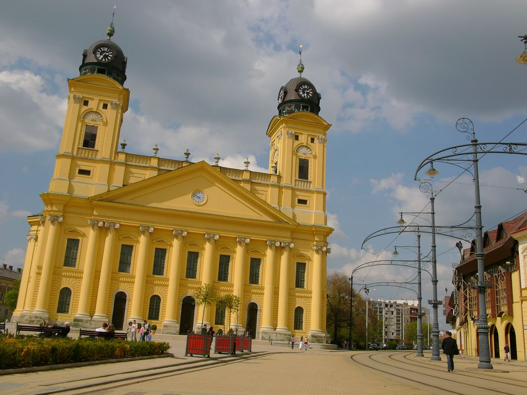 Nagytemplom Debrecen, Reformated Great Church in Debrecen